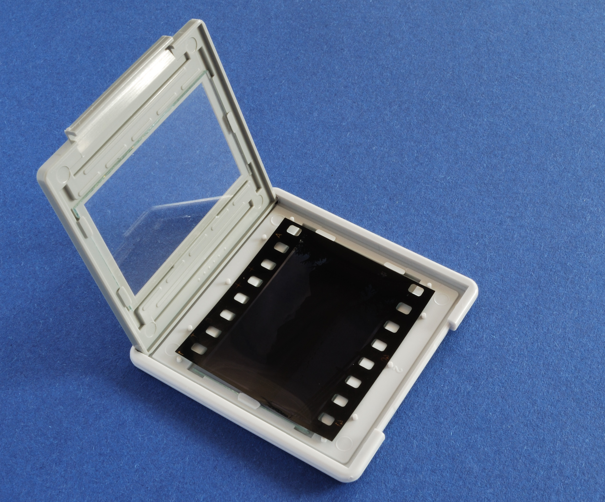 open slide frame with glas